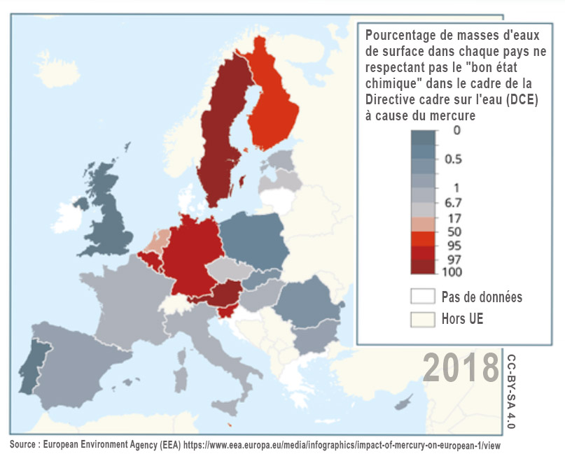 Percentage of surface water bodies in each country failing to meet good chemical status under the WFD because of mercury. Source EEA 2018. Note : map results based on WISE-SoW database including data from 22 member states (EU-28 except Croatia, Denmark, Greece, Ireland and Lithuania licence : ("You are free to Share — copy and redistribute the material in any medium or format ; Adapt — remix, transform, and build upon the material for any purpose, even commercially").